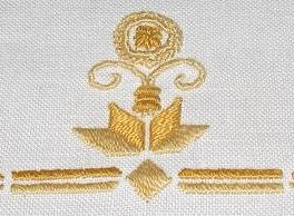 embroidery